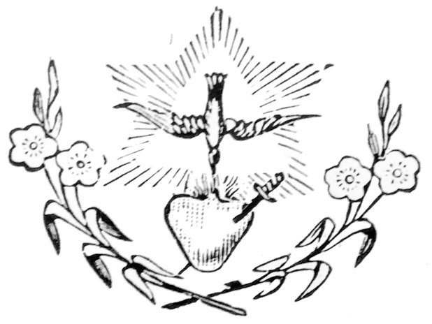 The seal of the Holy Ghost Fathers, the Congregation of the Holy Spirit. Depicted are the Immaculate Heart of Mary, and the Holy Ghost.